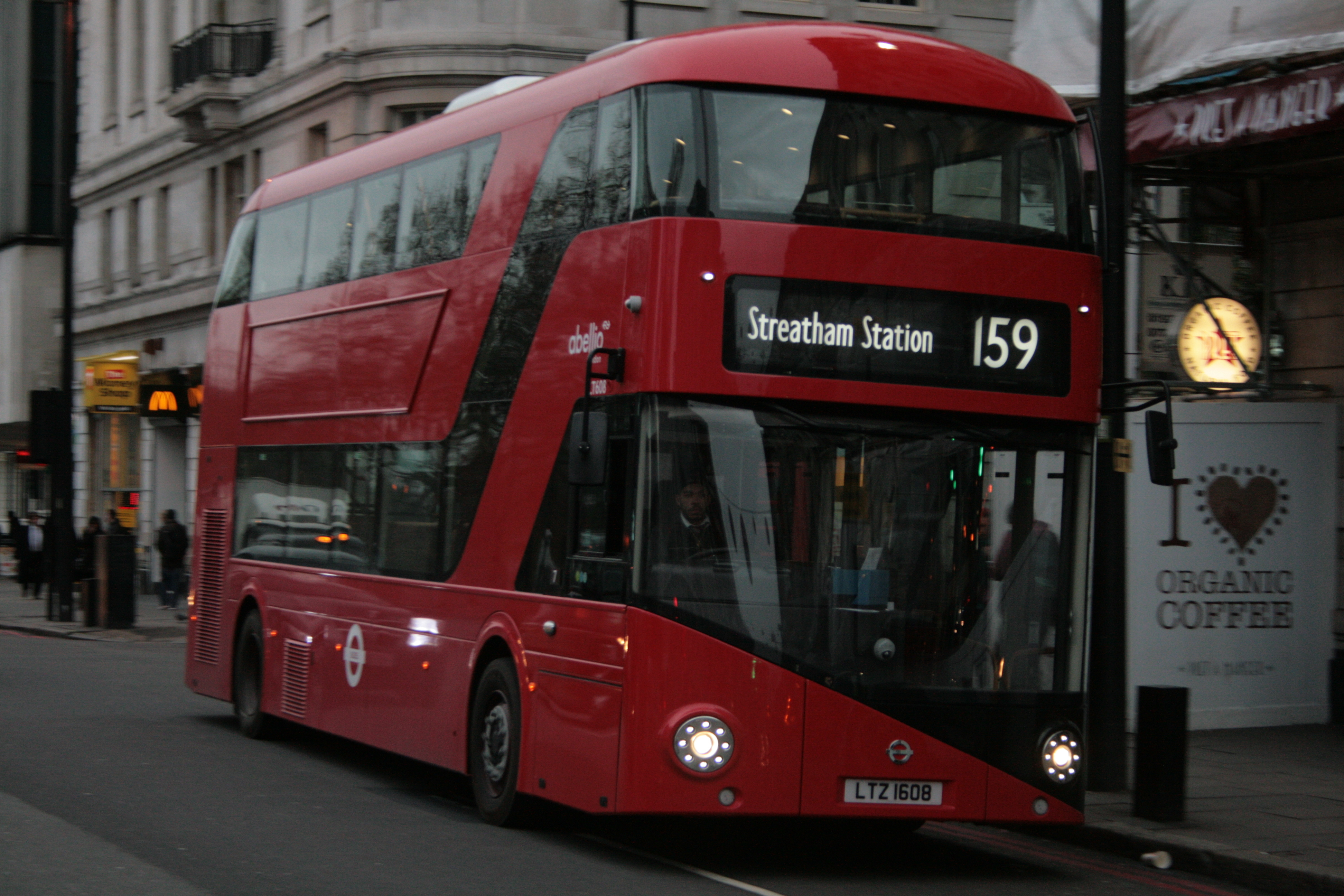 LTZ1608